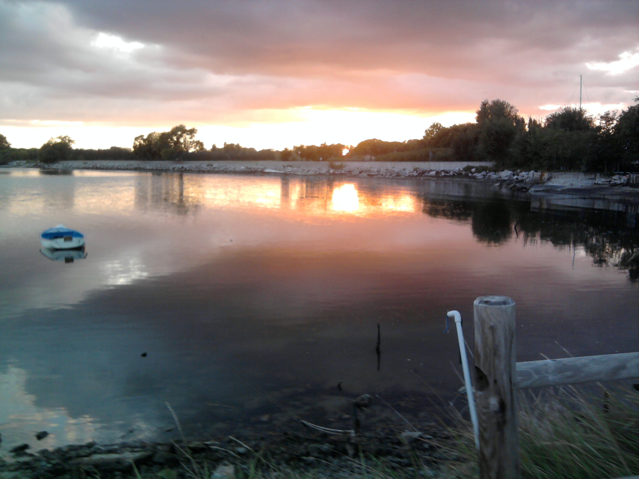 Late-summer sunset in panzano bagni, north adriatic